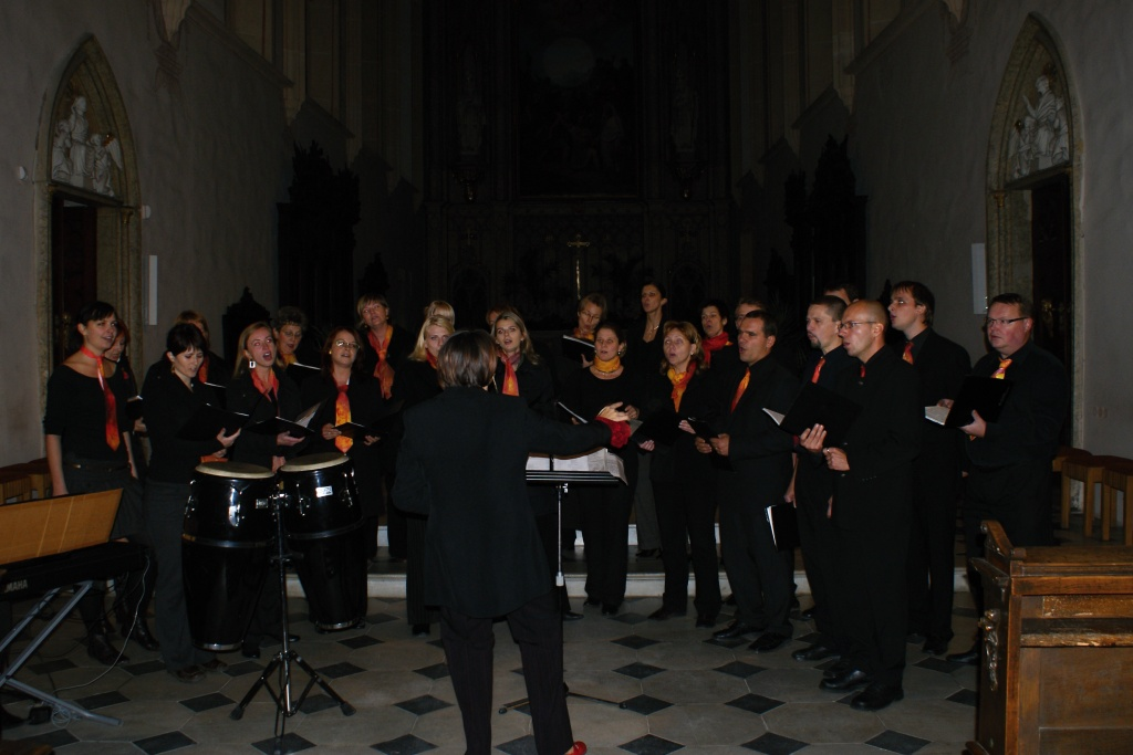 The Czech choir Zesrandy in Moric church Kromeriz